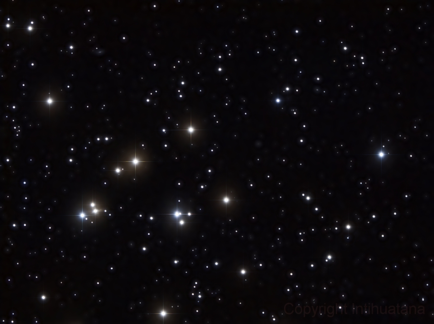 Image of M44 Beehive cluster. Composition of 10 x 300 second images, taken by the author. Miguel Garcia, using a 4" Takahashi 102 refractor telescope, integrated and processed using software tools. The image is Copyrighted to Intihuatana, which is a pseudonym of the author.